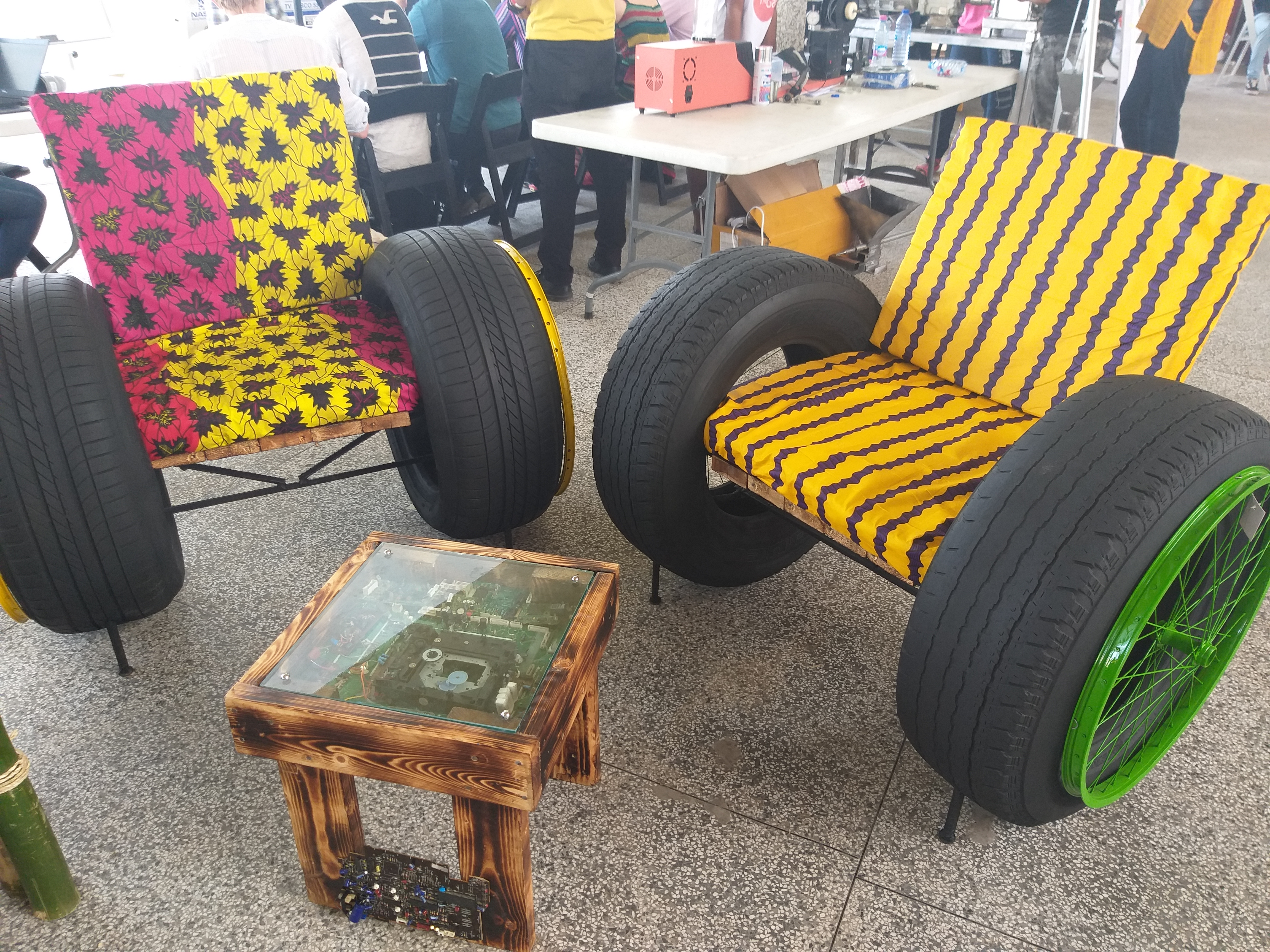 An armchair made from car tyres.